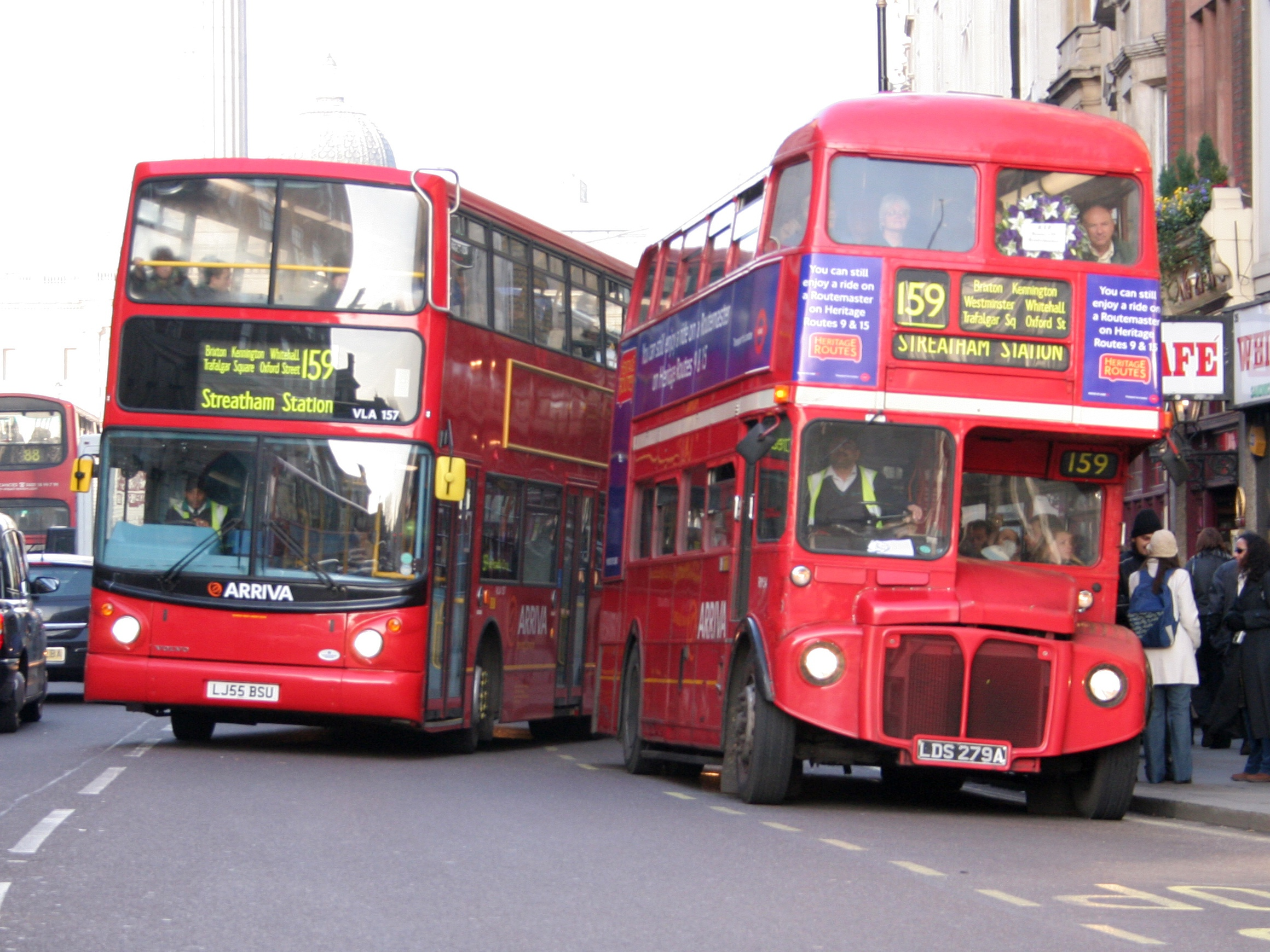 Two Arriva London South buses operating London Buses route 159 on the last day of non-heritage Routemaster operation in London. They're pictured here leaving Stop M (Whitehall / Trafalgar Square), heading south down Whitehall in Westminster en route to Streatham Station. On the right is Routemaster bus RM54 (reg. LDS 279A), operating its last journey on the day. On the left overtaking it is a 2005 Volvo B7TL double-decker with Alexander ALX400 bodywork, No. VLA157 (reg. LJ55 BSU), the first of the VLA class that were entering service from around 10am, as the Routemasters replacement on the 159. It's claimed that due to traffic delays, RM54 was actually the last Routemaster to be in service, having reached Streatham station after the last official bus (RM2217) running in the same direction but terminating short of the station, had reached its terminus at Streatham Hill, Telford Avenue (Brixton garage).